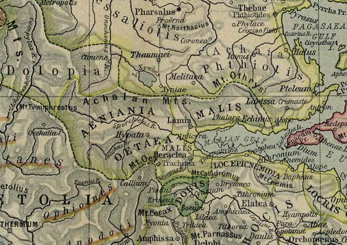 Map of Thessaly, cropped from old public domain map of Greece, from the Perry-Castañeda Library Map Collection, Historical Atlas by William R. Shepherd [1].